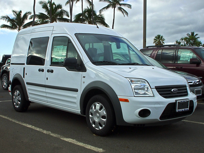 MODEL NAME: Ford Transit Connect GENERATION: I YEAR: 2010 LICENSE PLATE: UNPLATED OWNER: OTHER INFO